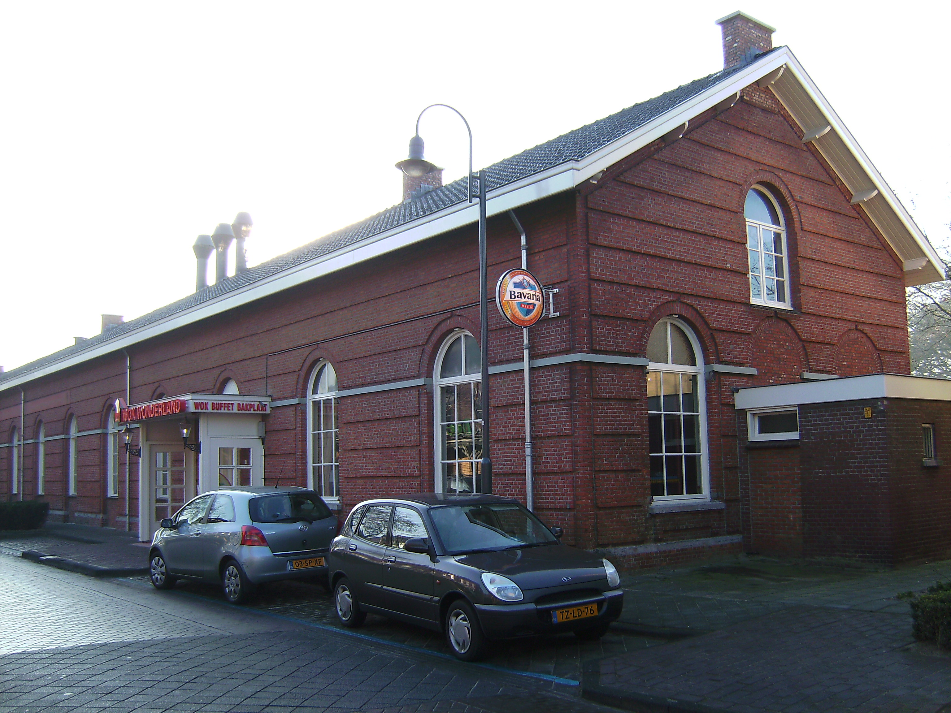 Former train station in Baarle-Nassau, Netherlands.